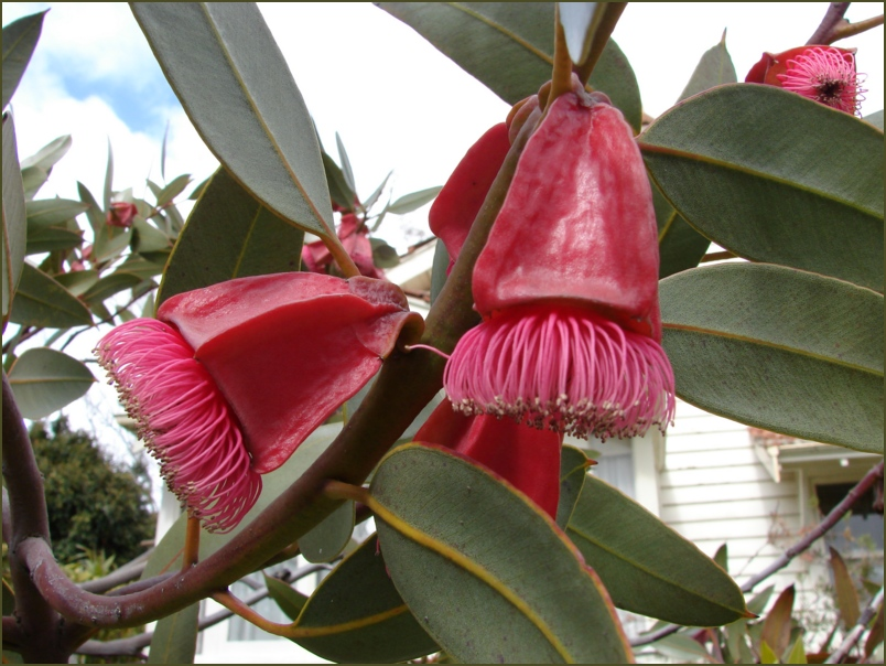 Eucalyptus tetraptera Amazing small Eucalypt with perfecr square (four winged) bud and nuts. Native to Western Australia (mainly between Albany and Esperance) Photographed in the street in Melbourne.